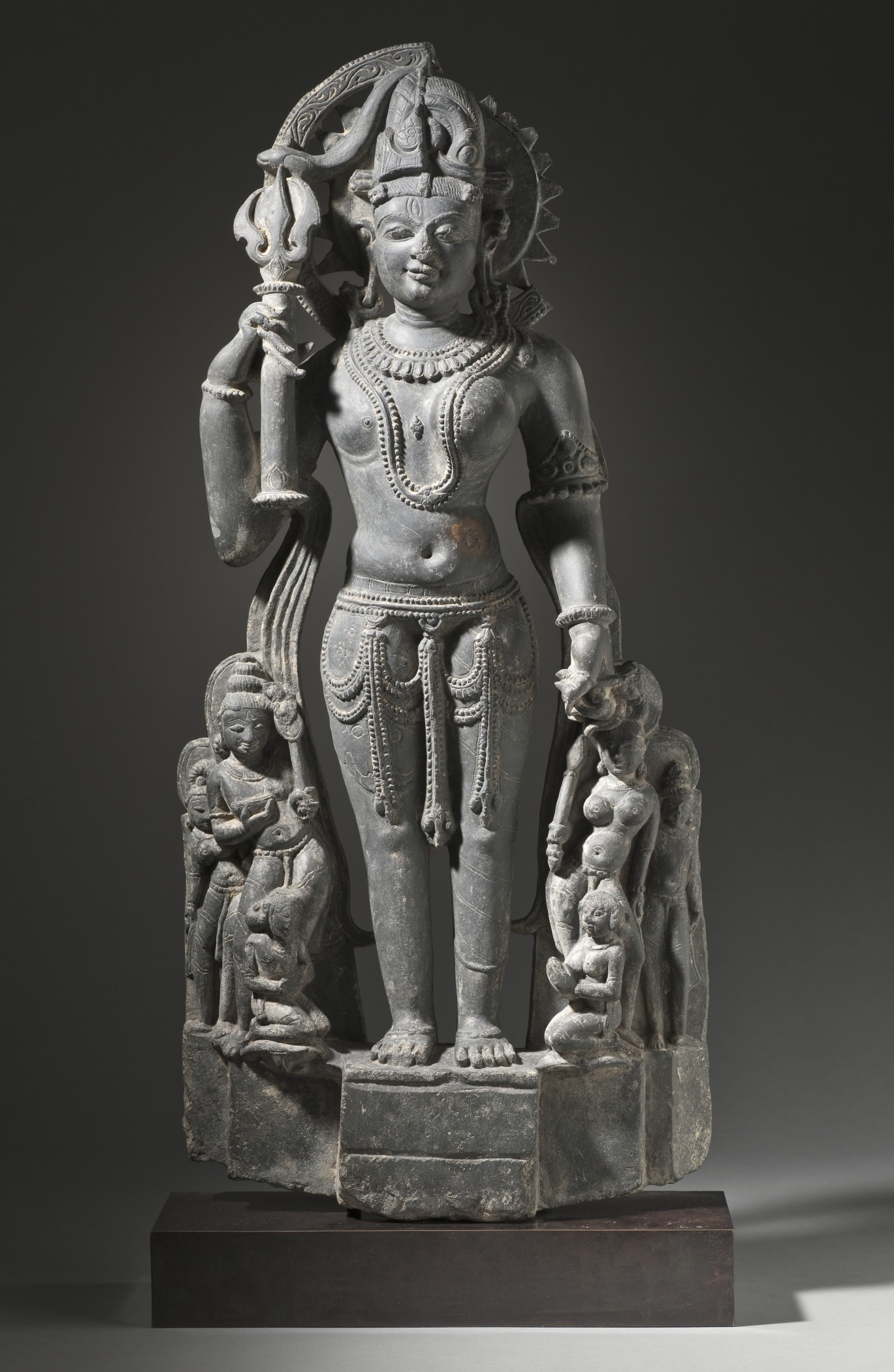 India, Rajasthan, 11th century Sculpture Black schist Ancient Art Council and the Indian Art Special Purpose Fund (M.87.107) South and Southeast Asian Art